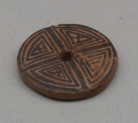 Painted pottery spinning wheel with triangle design, Banshan category, Majiayao culture, Unearthed at Baidougouping in Lanzhou